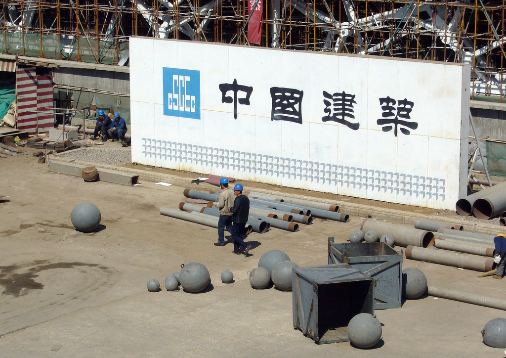 The 2008 Olympic National Swimming Centre is being constructed by the China State Construction and Engineering Corporation. I really don't know what the balls are for: they are strewn all around the site.